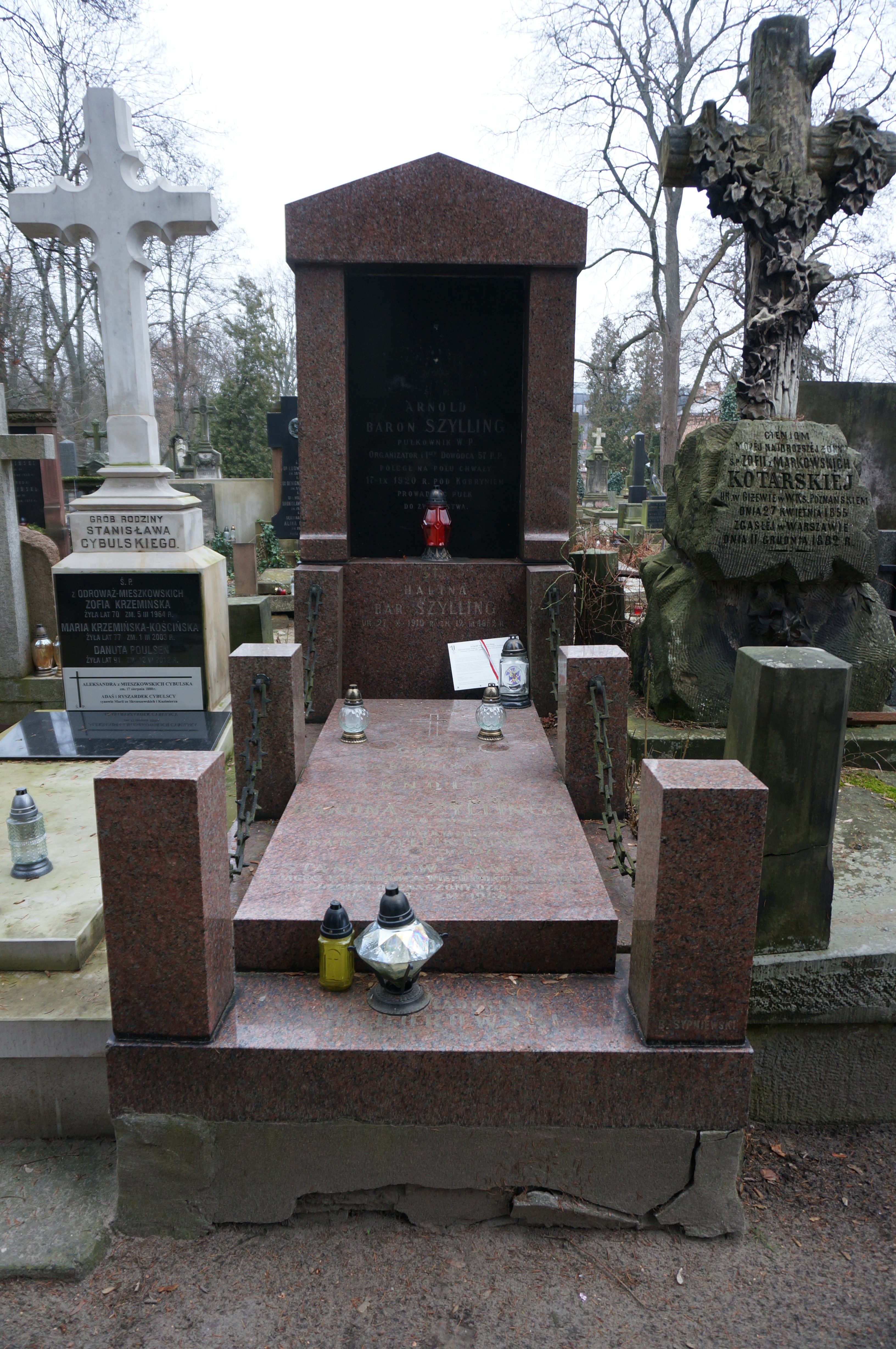 The grave of Arnold Szylling at the Powązki Cemetery (section I, row 6, grave 9)